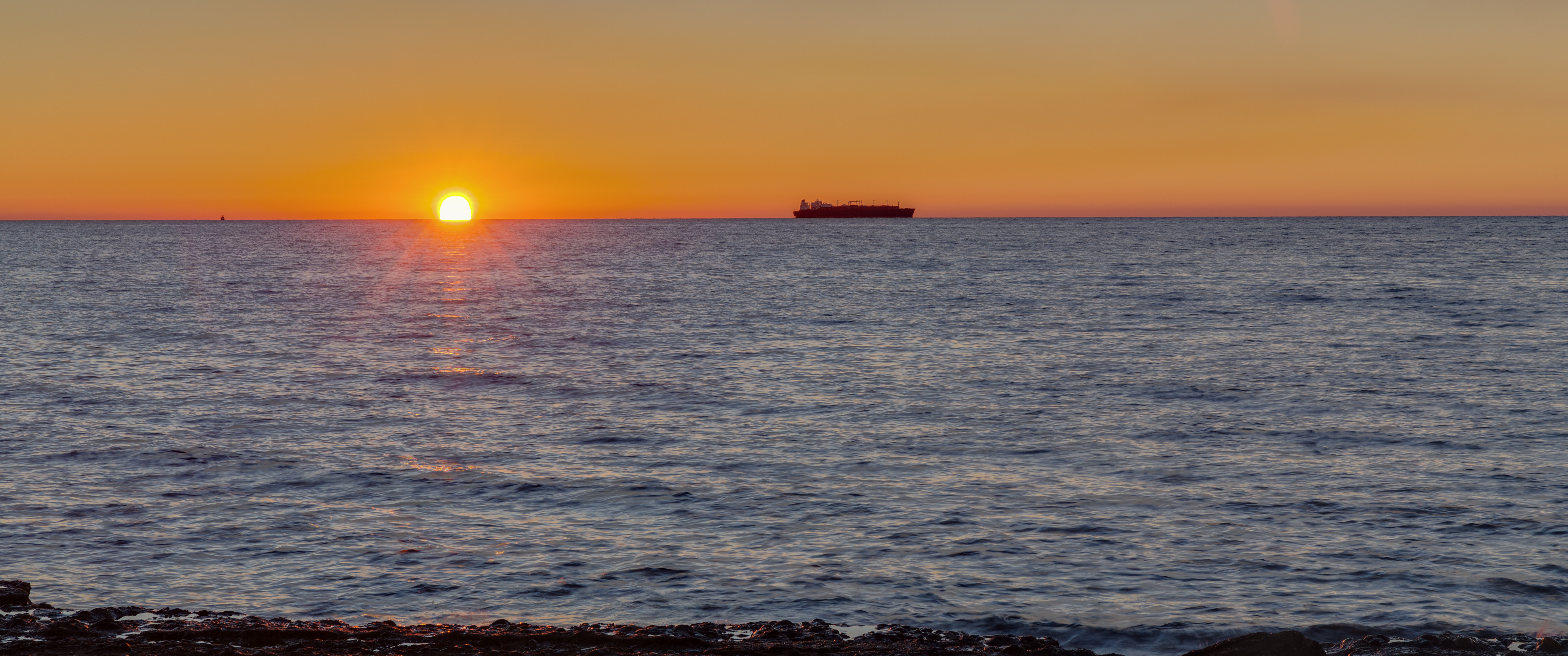 Grau Vell, SCI Marjal del Moro, Valencia, Spain